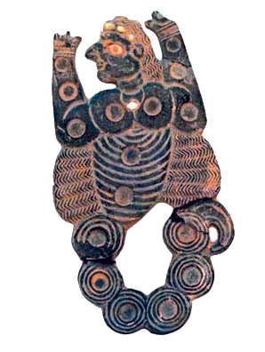 Another game board found in the Jiroft civilization.